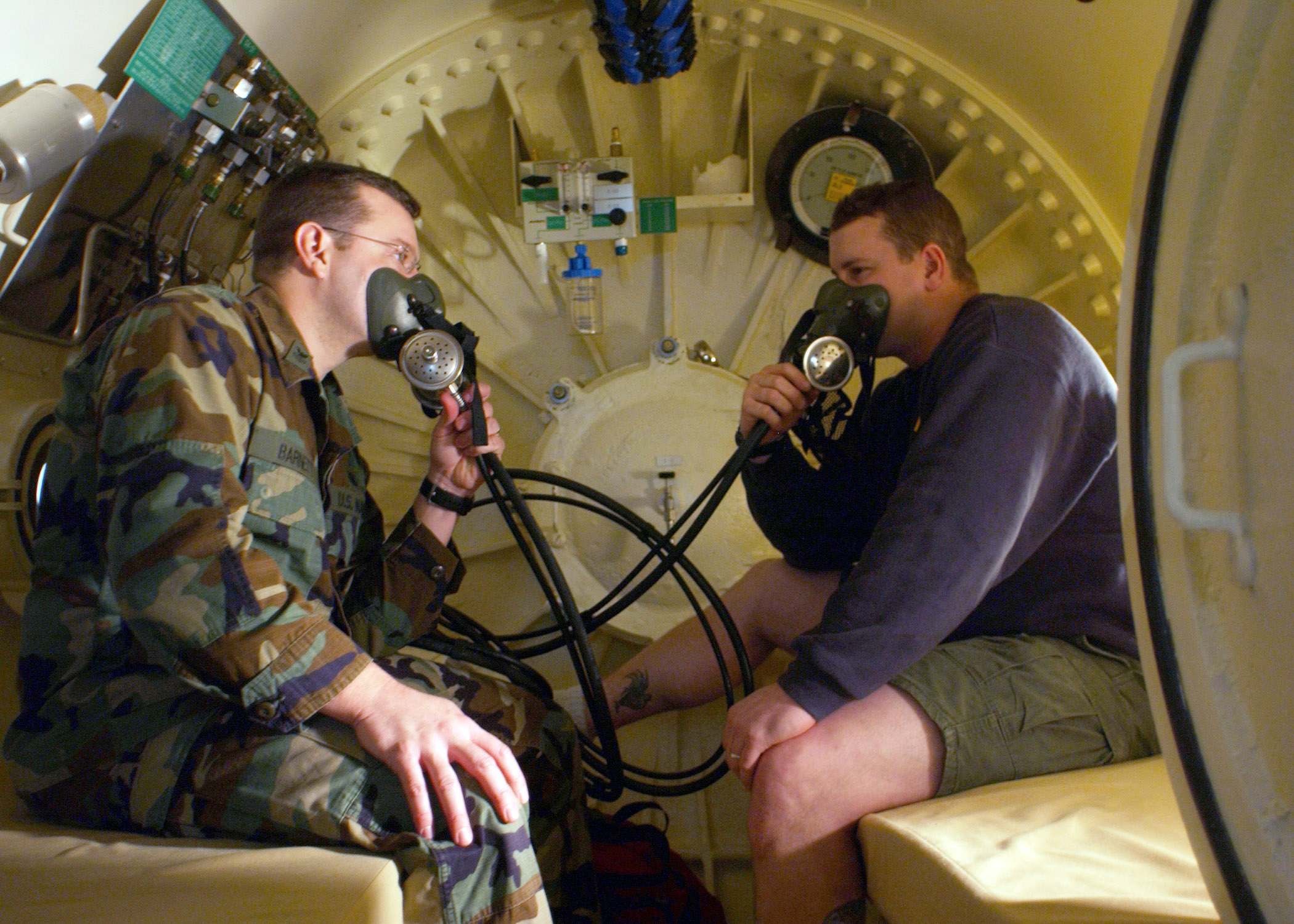 Keyport, Wash. (Feb. 8, 2007) - Navy Diver 1st class Mike Barnett and Navy Diver 1st Class Chad Christensen test built-in breathing masks inside a recompression chamber located in the dive locker at Naval Undersea Warfare Center, Keyport. The recompression chamber is used to treat diving related disorders and other medical conditions with hyperbaric oxygen therapy (HBOT). U.S. Navy photo by Mass Communication Specialist Seaman Andrew Breese (RELEASED)